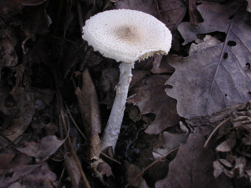 Lepiota Clypeolaria (Bull.:Fr.) Kummer